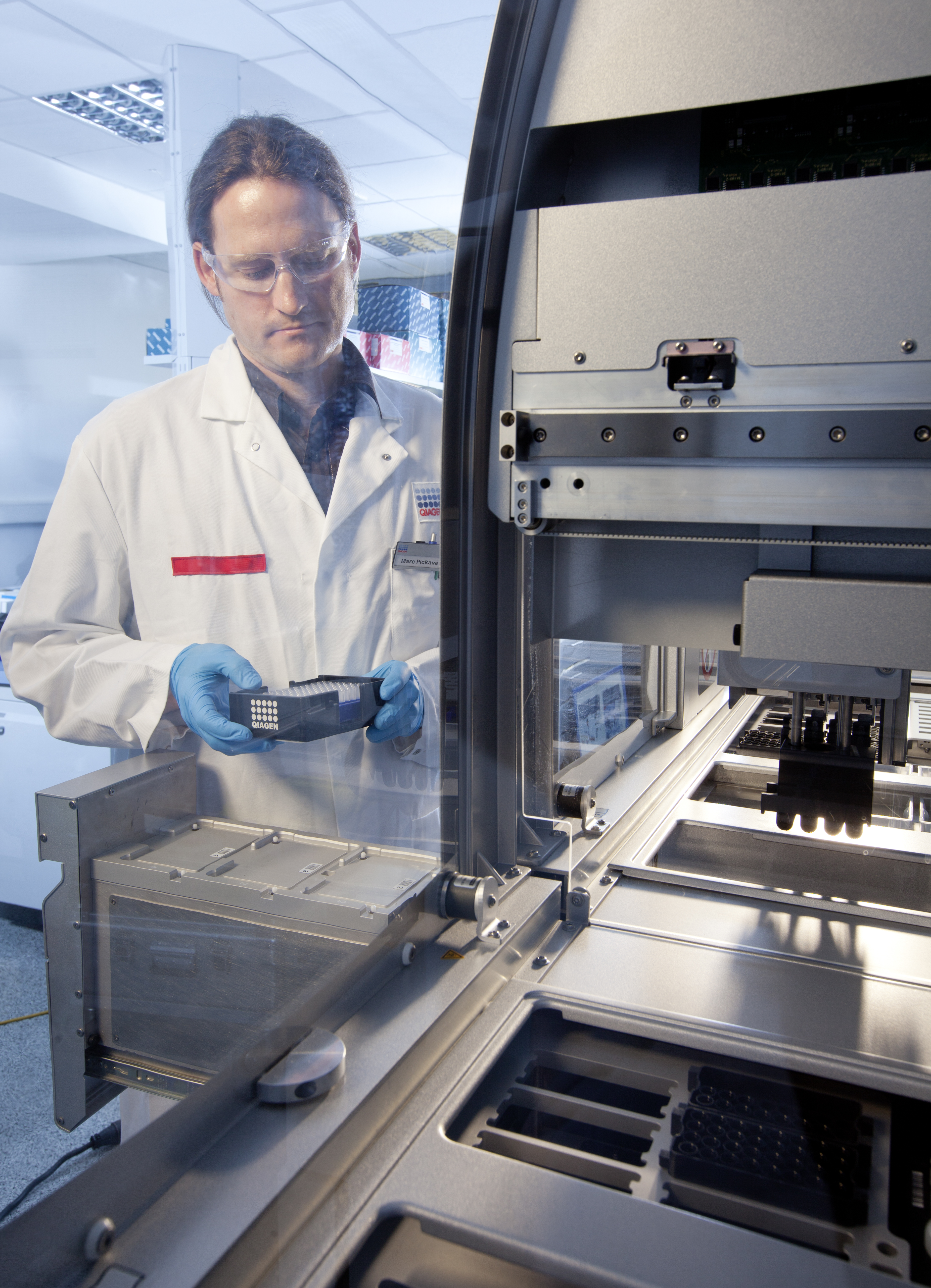 Loading of the QIAsymphony platform in QIAGEN's application laboratory in Hilden. (The QIAsymphony is a modular automation platform which covers entire laboratory workflows from initial sample processing to the final test result).